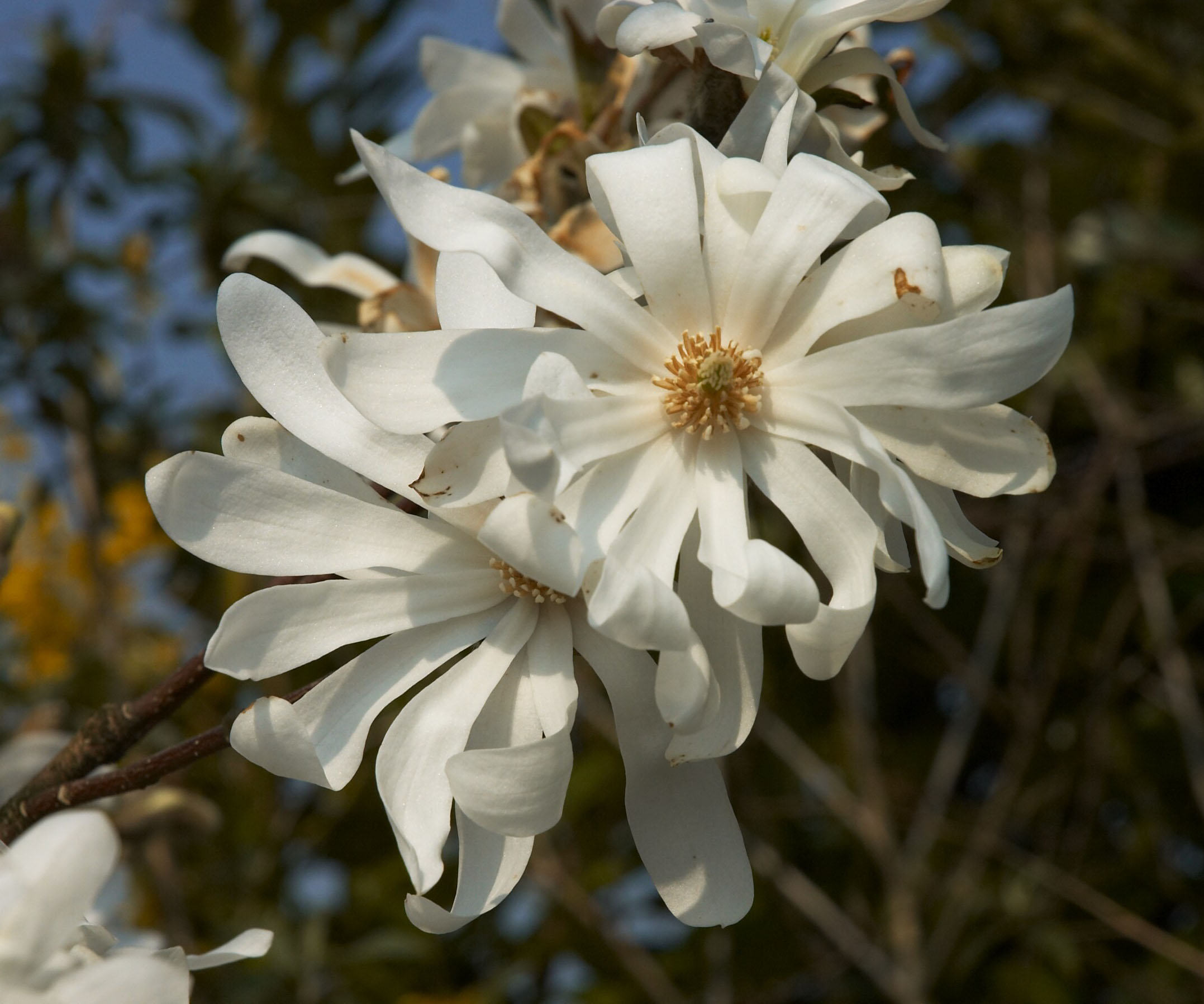 Star Magnolia